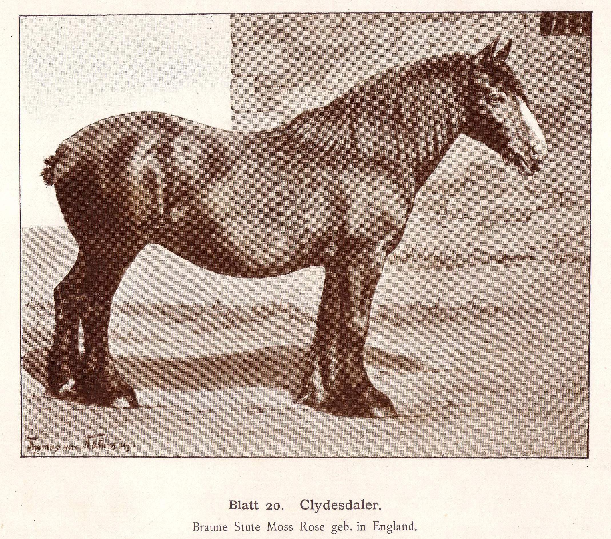 horse, Clydesdale, female, "Moss Rose", born in England